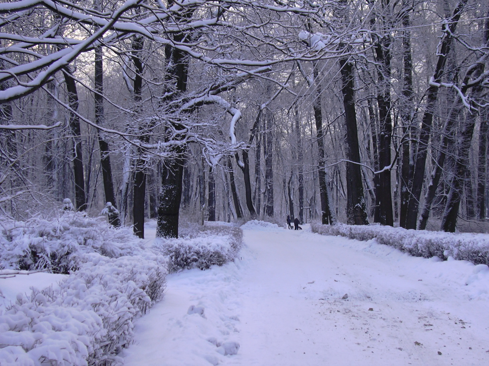 winter in St.Petersburg park